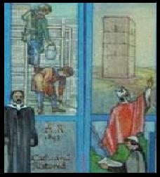 Cuts from a depiction of Bishop Clement of Dunblane, with illustrations of the building of Dunblane cathedral in the background.